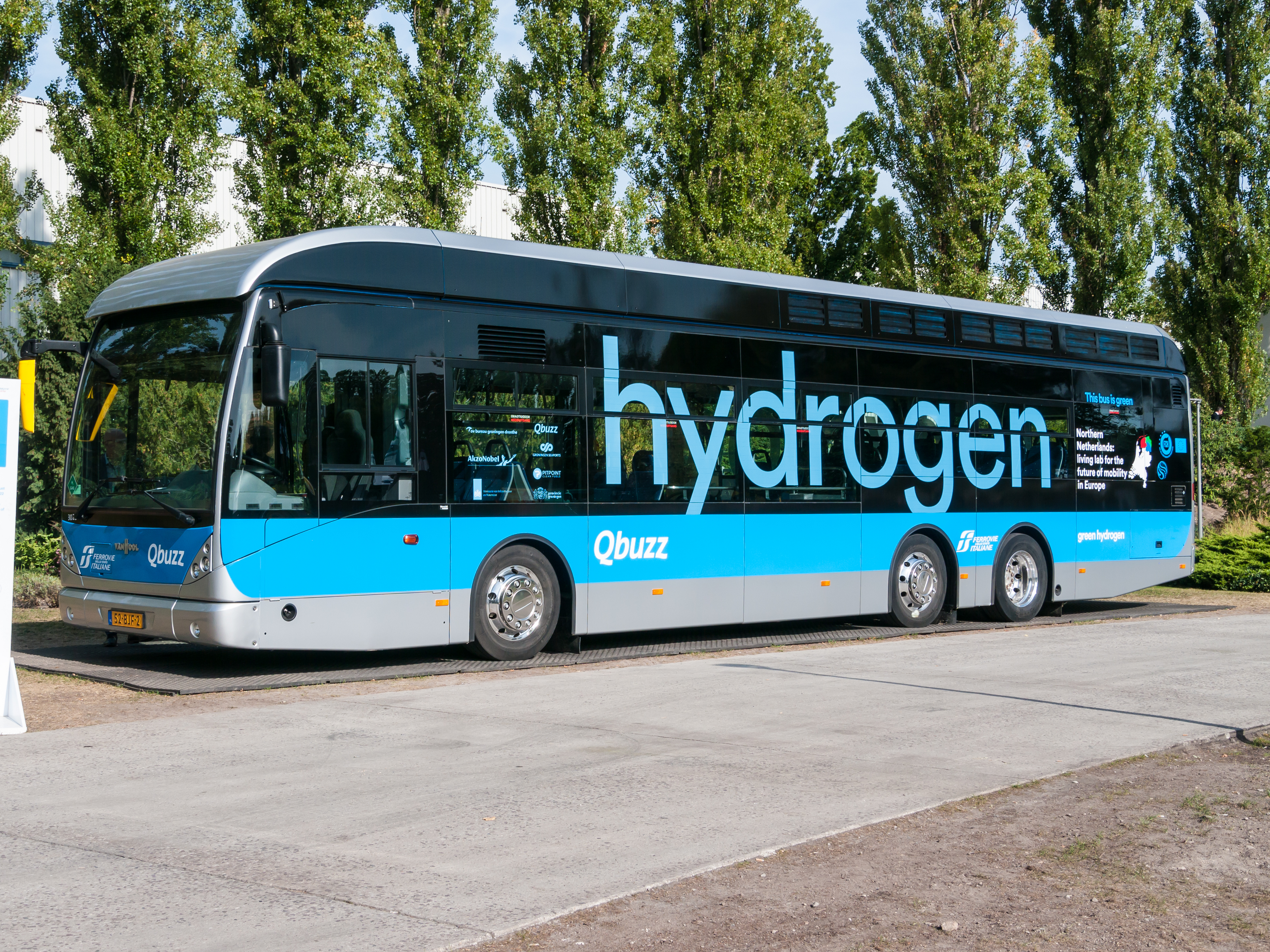 Van Hool, Innotrans 2018